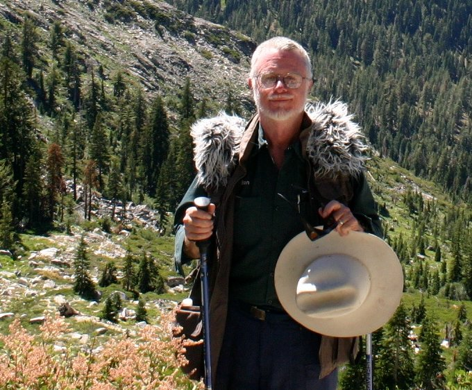 Dan Dugan wearing his recording vest with mics on shoulders, on the Foster Lake Trail in the Trinity Alps. In the Trinity Alps Wilderness, northern California.